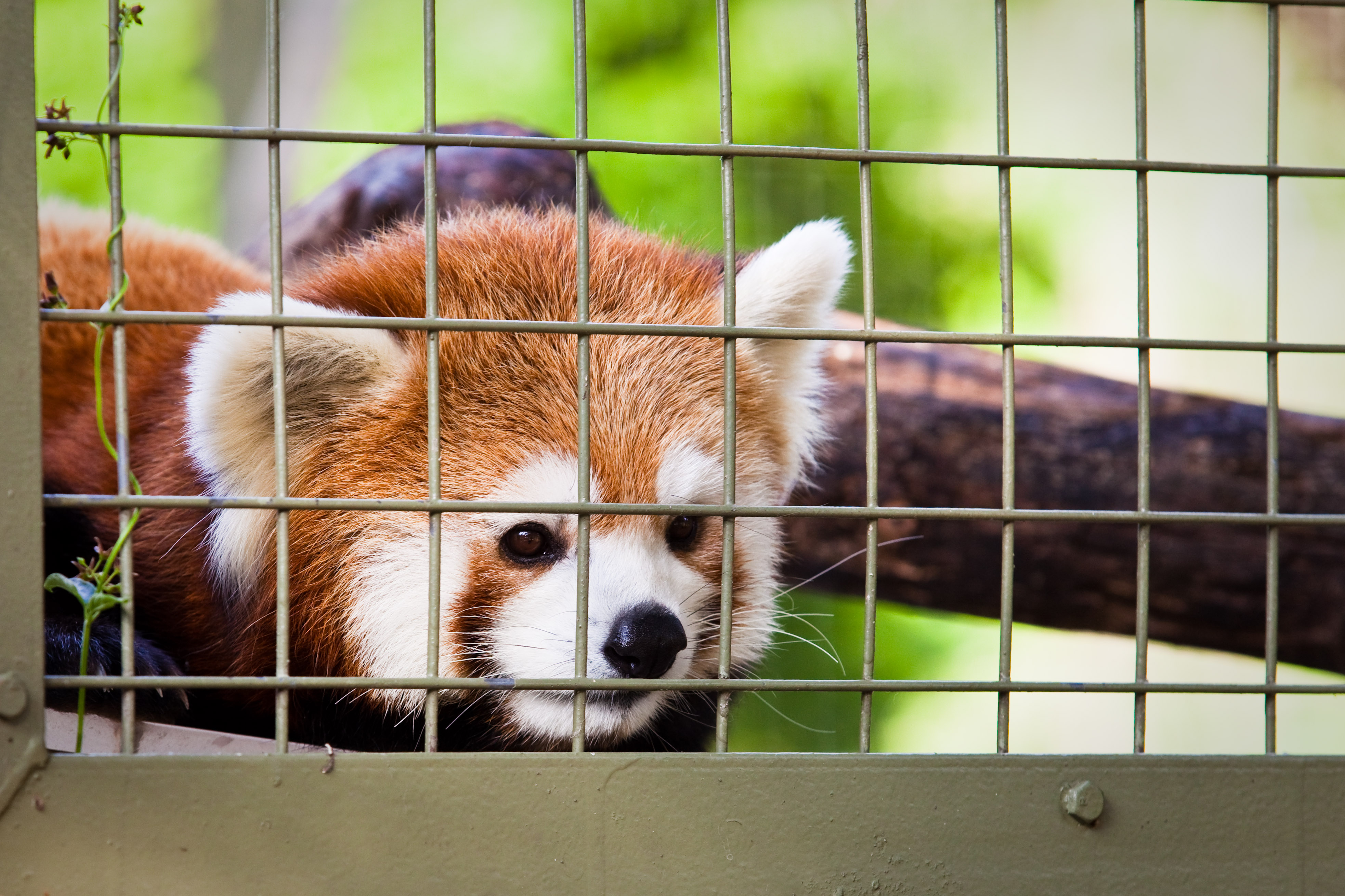 Red Panda at the Toronto Zoo I've been to the zoo quite a bit of times but this was the first time I saw the red panda. Little dude hides pretty well. Too bad he wouldn't come out of his enclosure that day, hence all the bars. Toronto Zoo